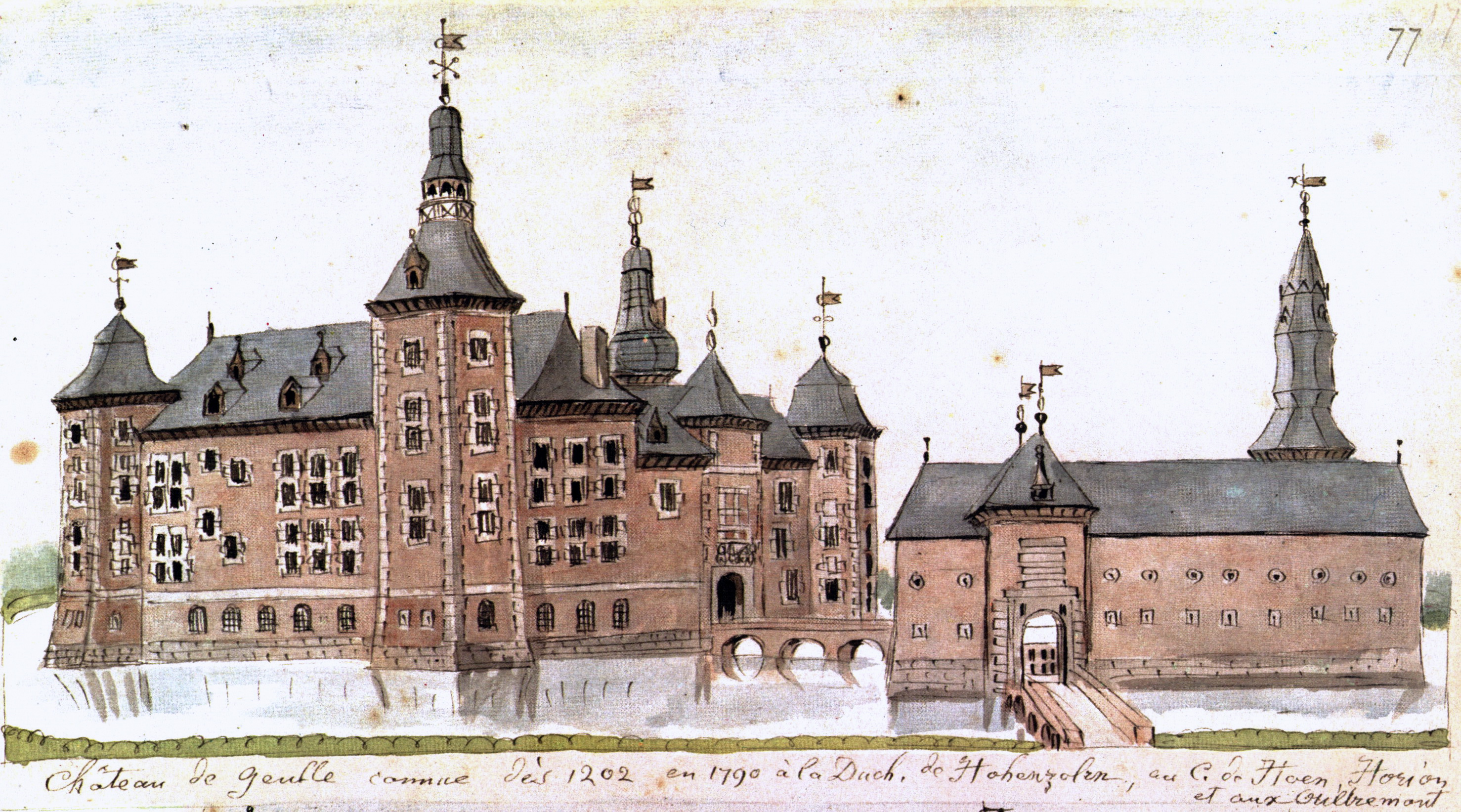 View of Geulle Castle, Limburg, the Netherlands, largely destroyed in 1846. Drawing by Philippus van Gulpen (c 1840-60)